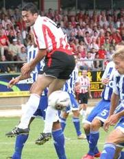 Peter Hutton. Cropped personal photo.